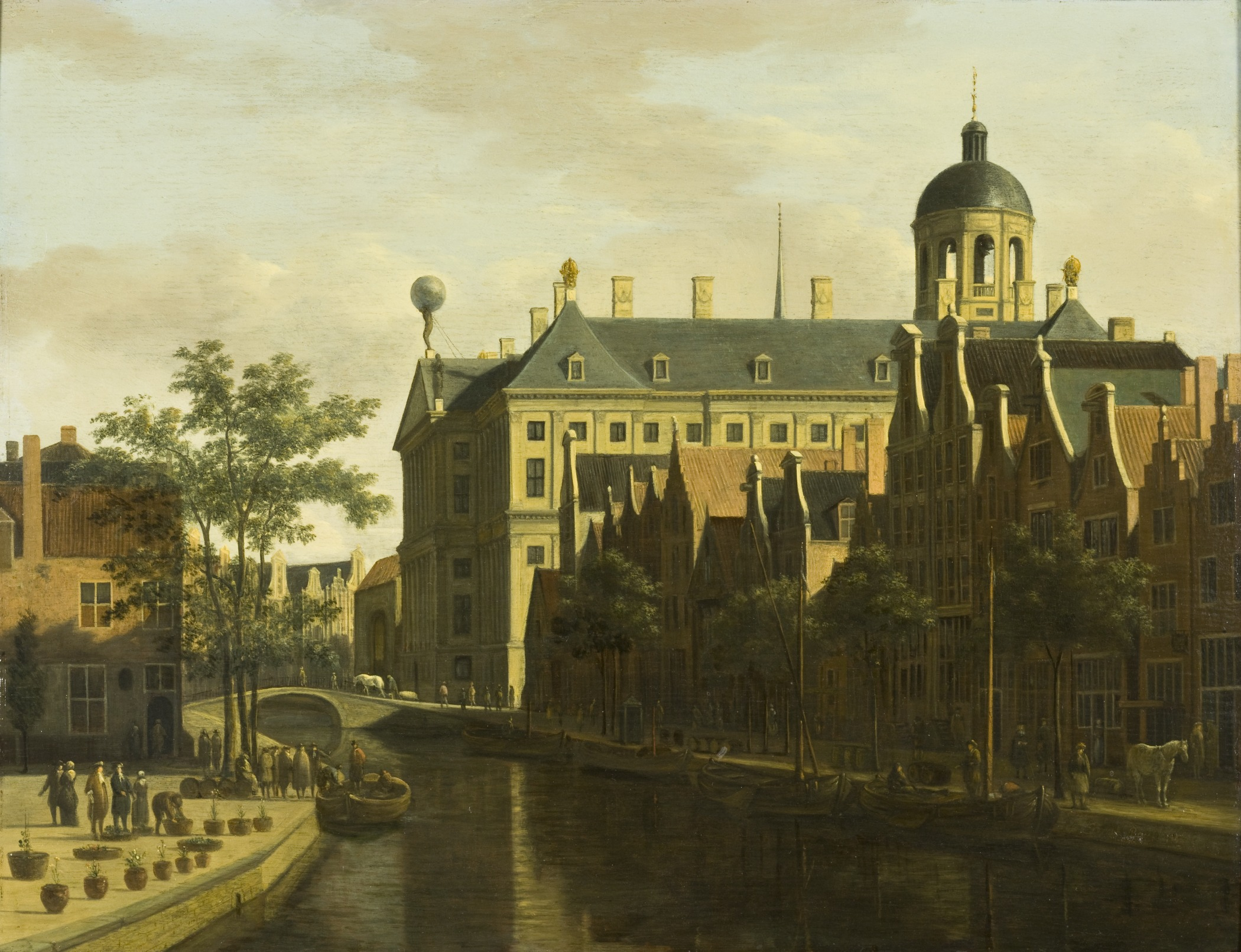 Paintings